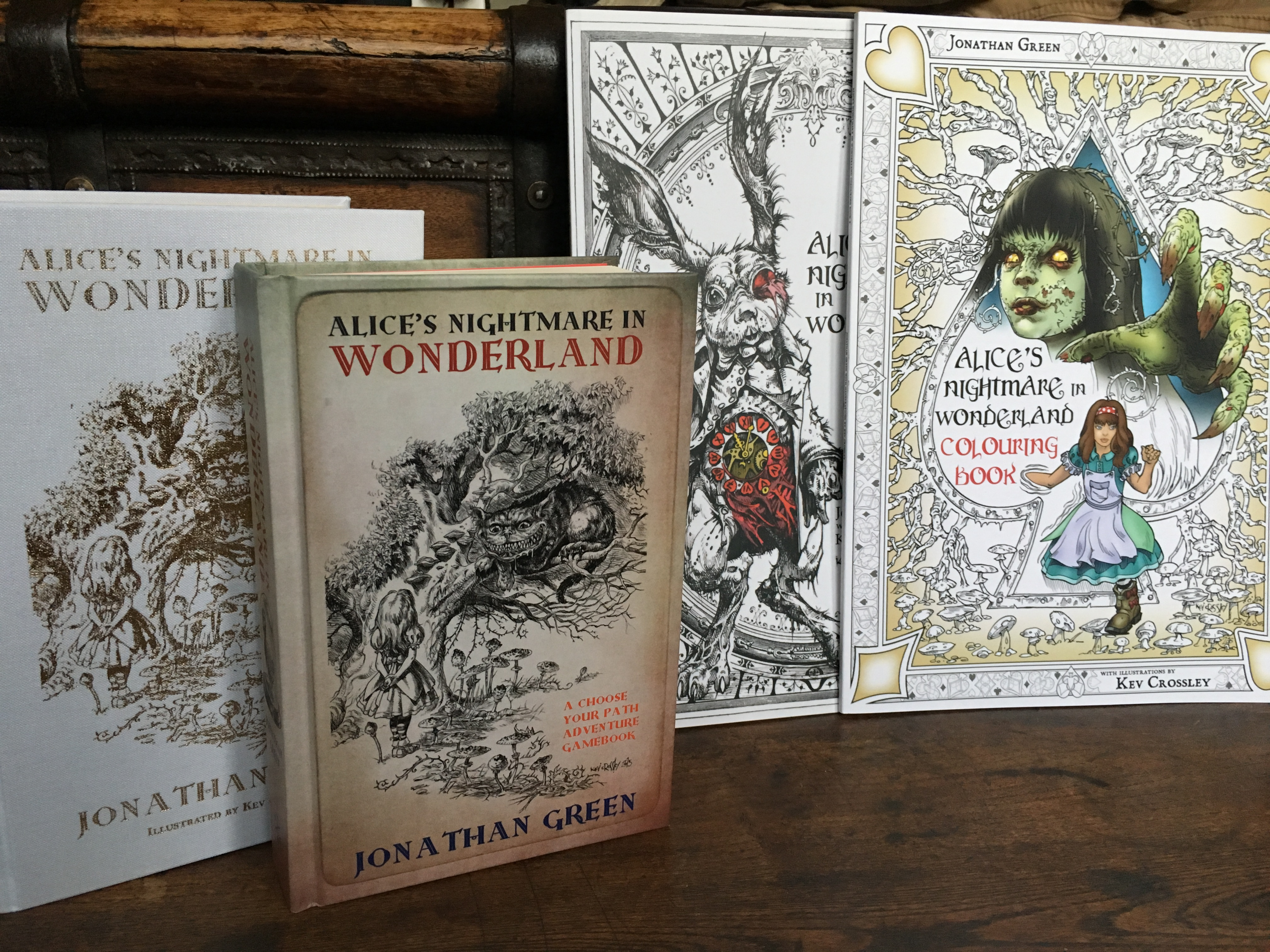 The Alice's Nightmare in Wonderland range, published by Snowbooks.